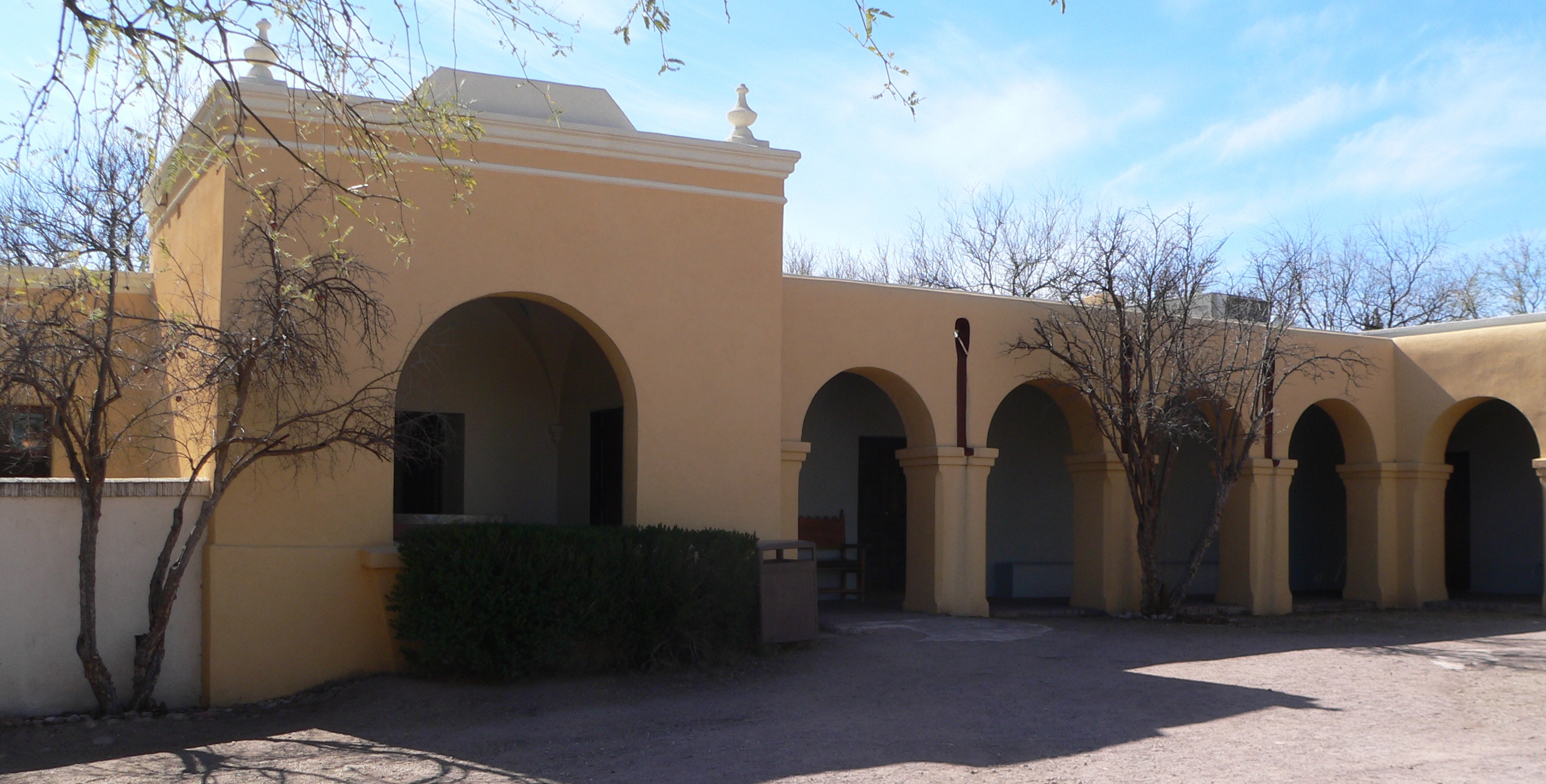 Tumacácori National Historical Park: central portion of museum, seen from the courtyard.